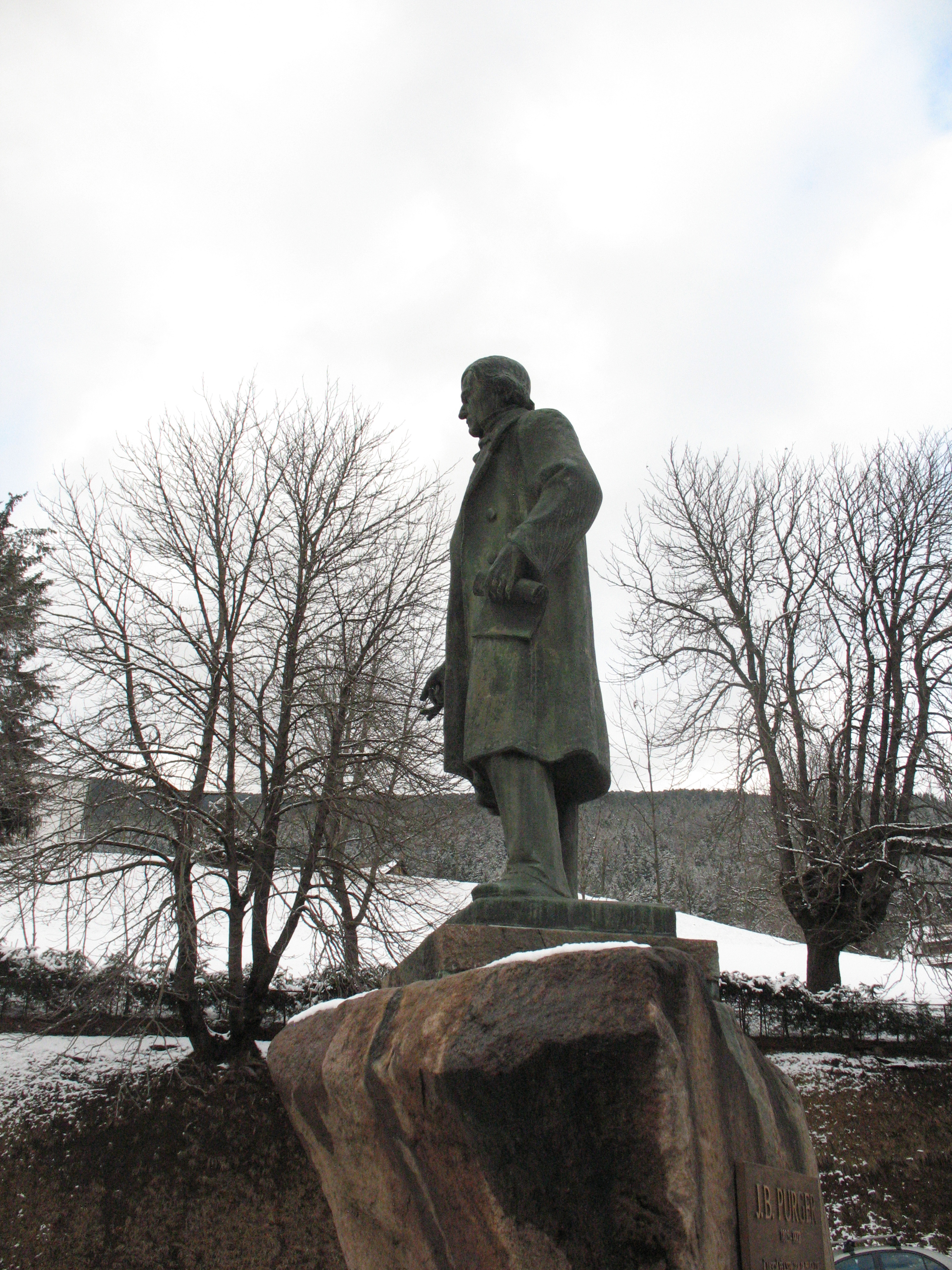 Monument to J.B. Purger in St. Ulrich in Gröden - Ortisei Val Gardena - Sculptor Ludwig Moroder-Lenert